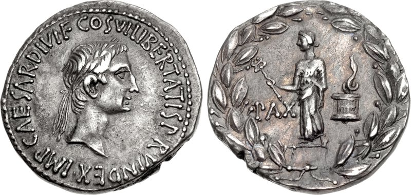 Octavian. 28 BC.AR Cistophoric Tetradrachm (11.74 g). Ephesus mint.IMP • CAESAR DIVI • F • COS VI • LIBERTATIS• P • R VINDEX • laureate head right Pax standing left, holding caduceus; to right, serpent arising from cista mystica, PAX to left; all within wreath. RIC I 476; BMCRE 691; CRI 433; RPC 2203; Sutherland Group I, 26 var (O17/R-); RSC 218.